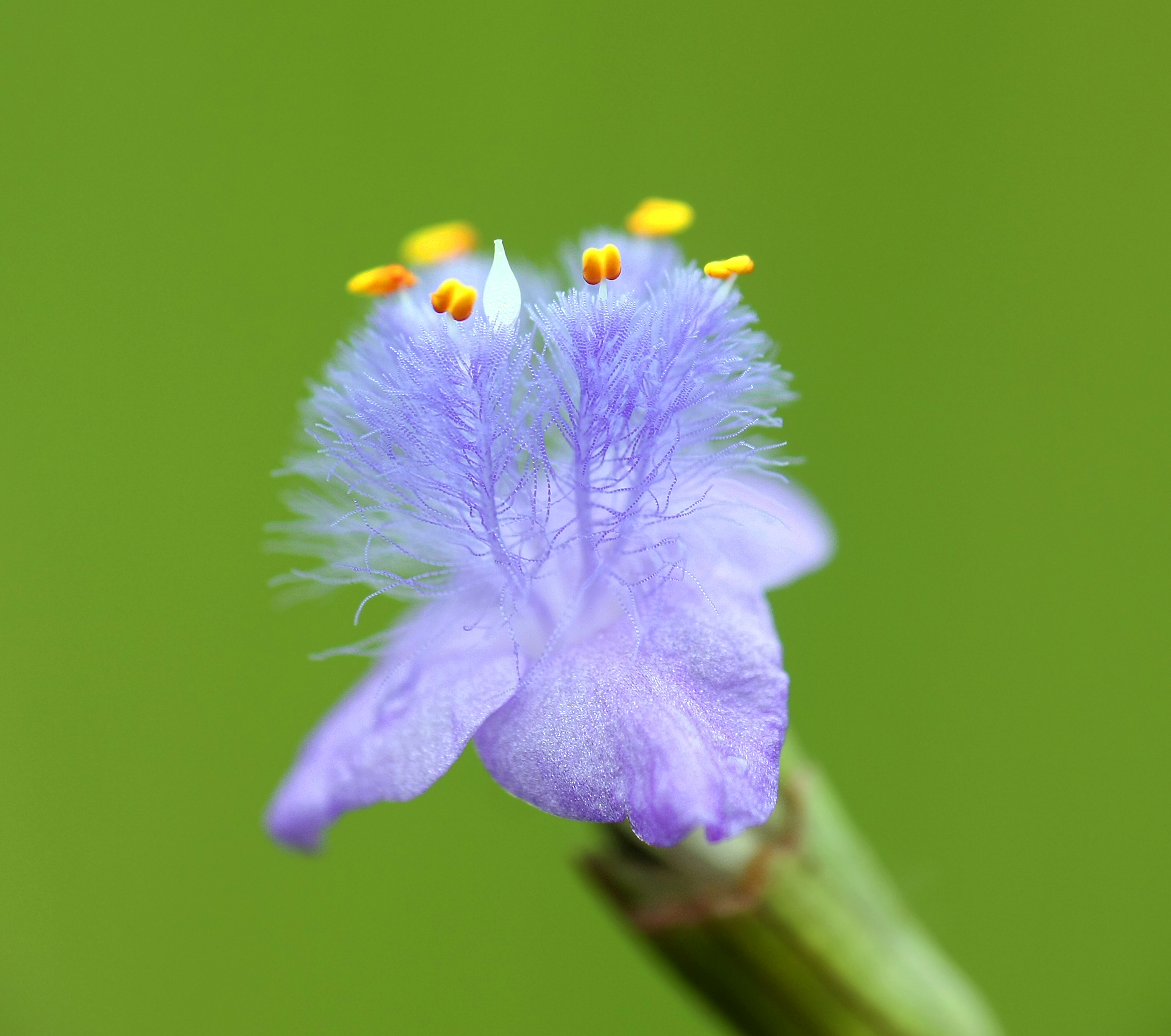 Close up of Cyanotis axillaris flower